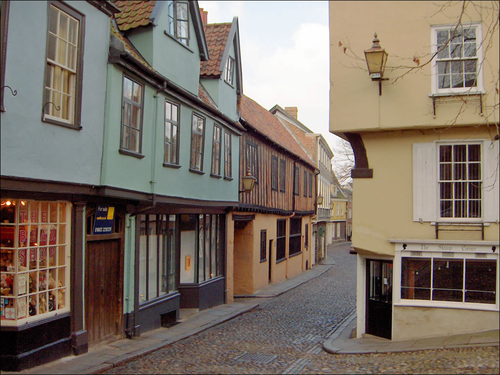 Elm Hill in Norwich Photo taken by Mark Oakden of TourNorfolk for the Norwich online guided tour at